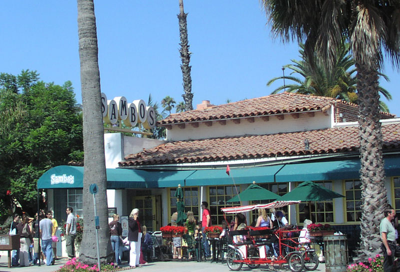 Sambo's Restaurant, the only one remaining, Santa Barbara, CA